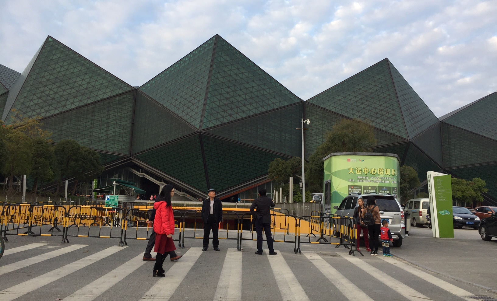 the ShenZhen Universiade Sports Centre building in LongGang District